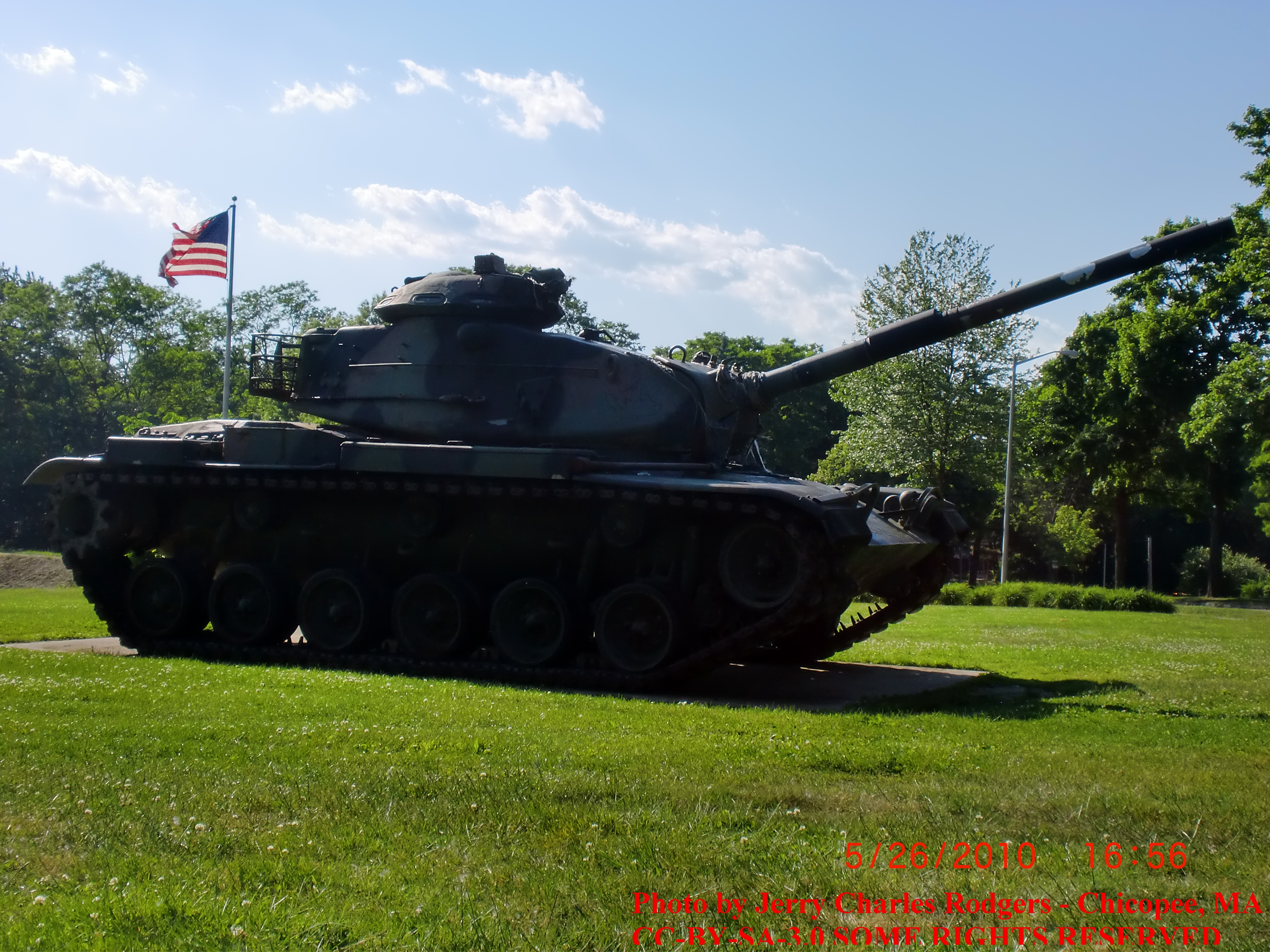 This is one of two tanks located in the Frank J. Szot Memorial Park.